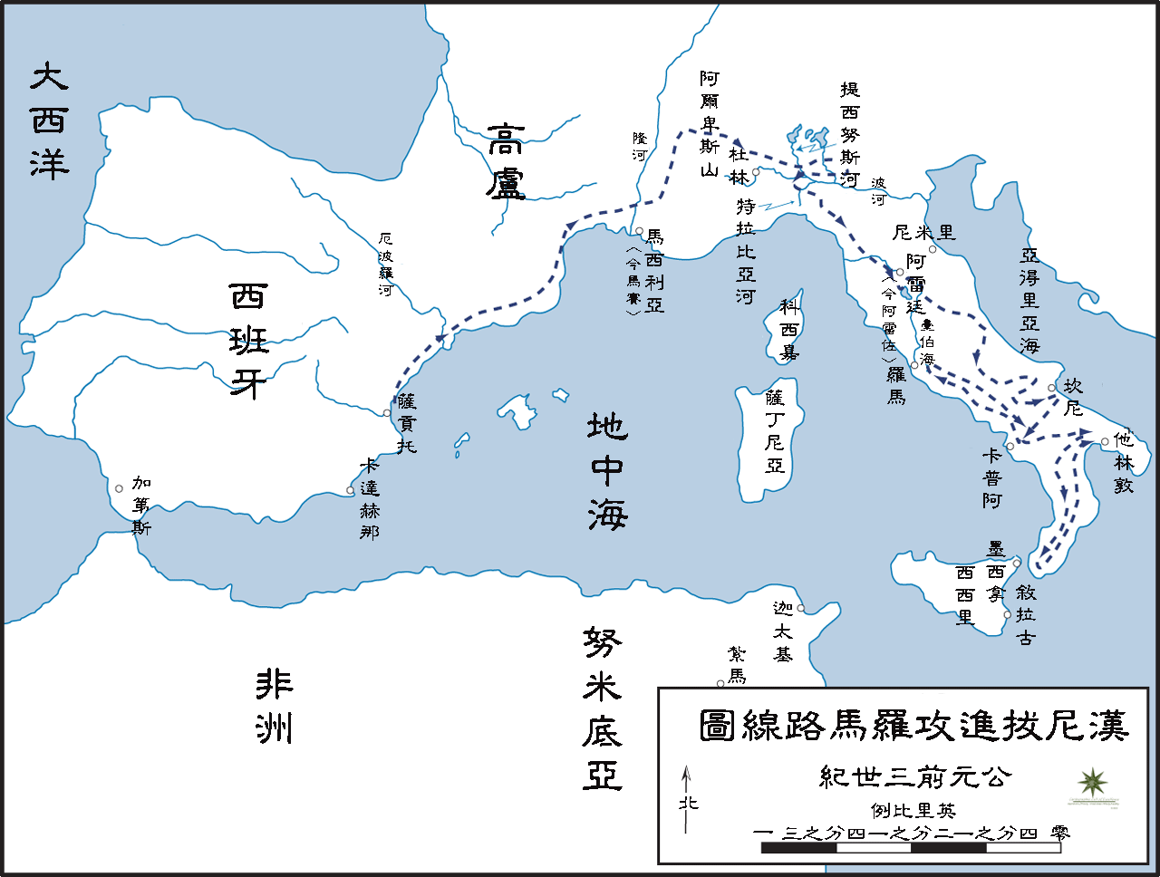 Hannibal's route of invasion